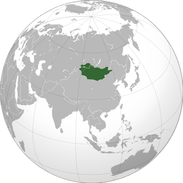 Map of Outer Mongolia (1915)